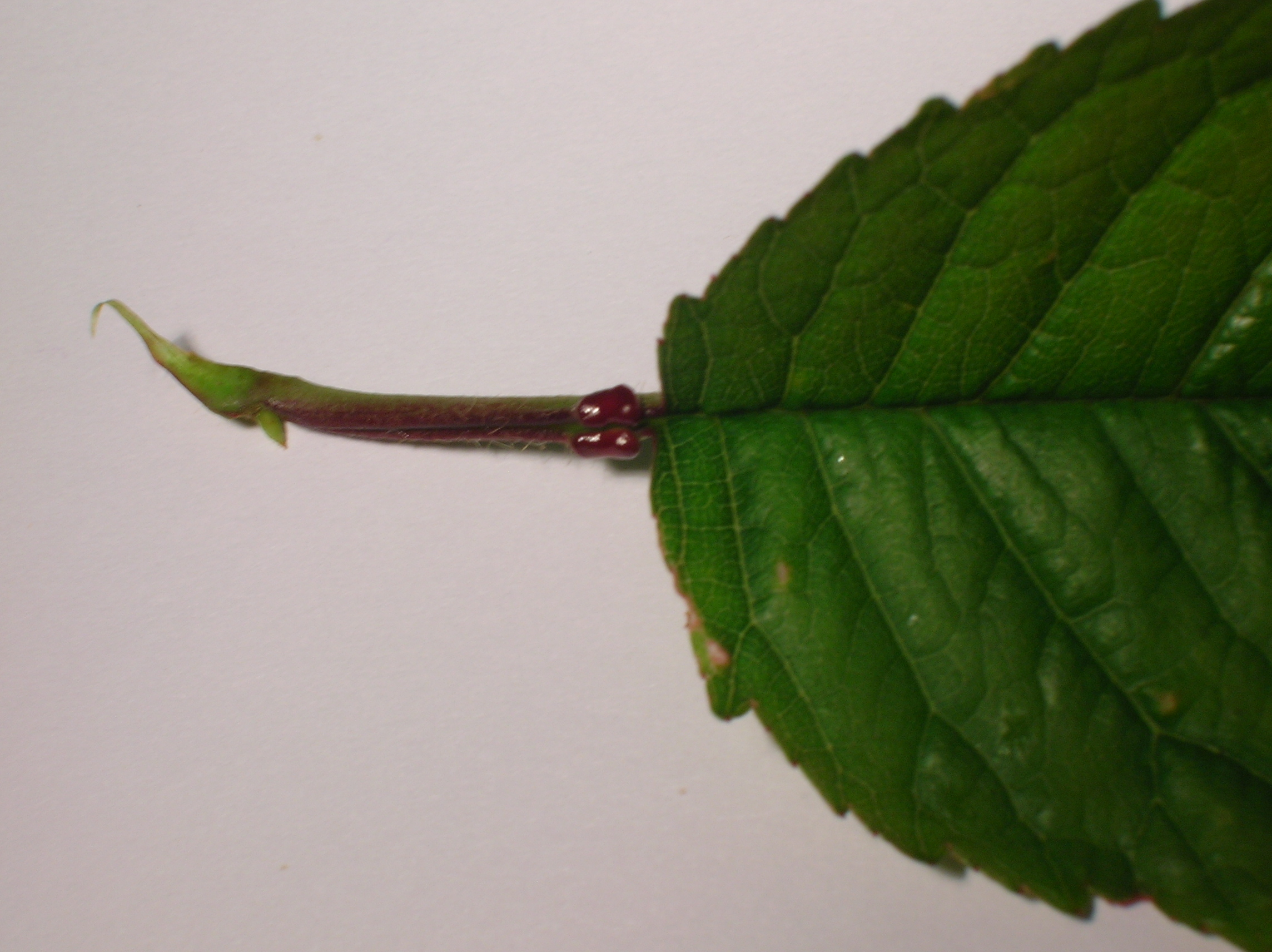 Extra-floral nectary glands on the petiole of Prunus avium, the Wild Cherry